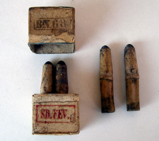 Chassepot Cartridges